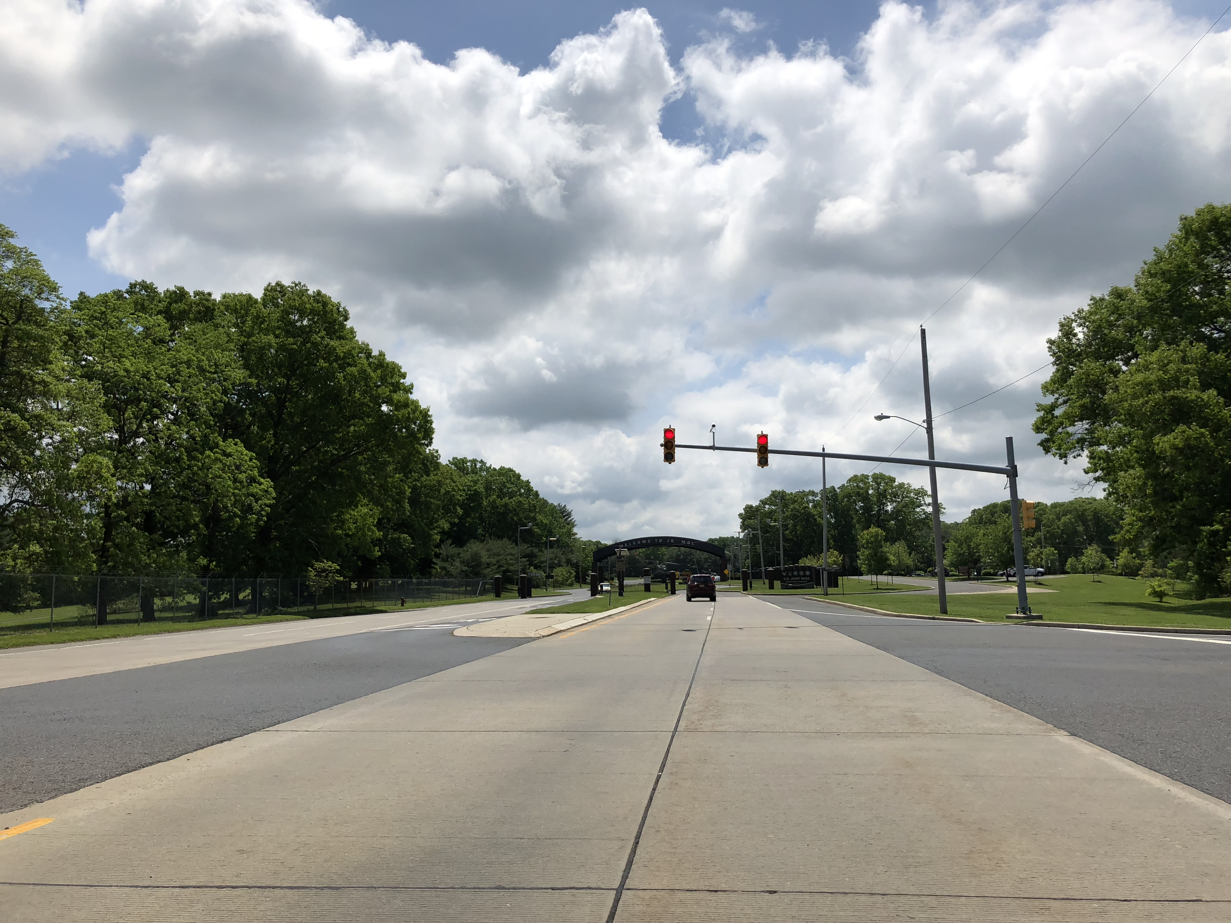 View south along New Jersey State Route 68 at Burlington County Route 616 (Fort Dix Road) in New Hanover Township, Burlington County, New Jersey